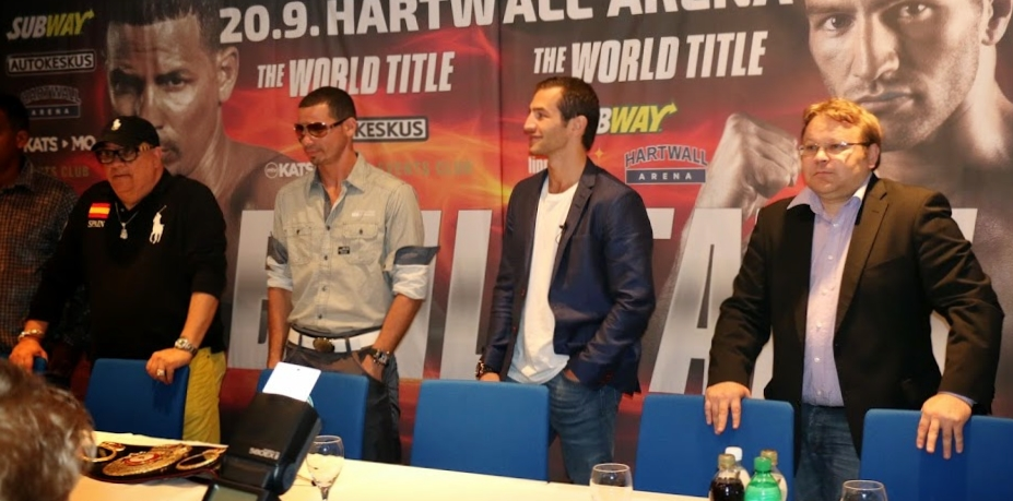 From left to right: Ricardo Rizzo (Abril's advisor), Richar Abril, Edis Tatli and Pekka Mäki (Tatli's promoter) at the press conference in Helsinki.